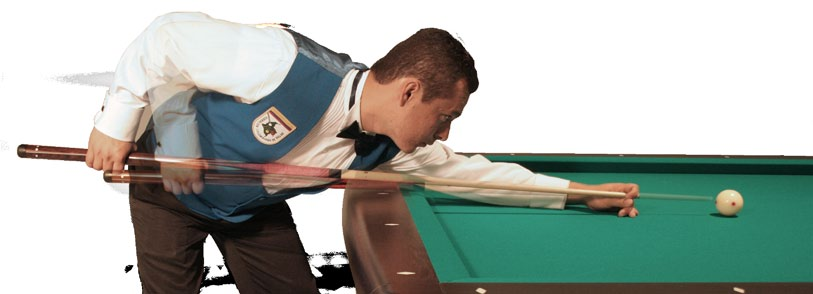 billiard